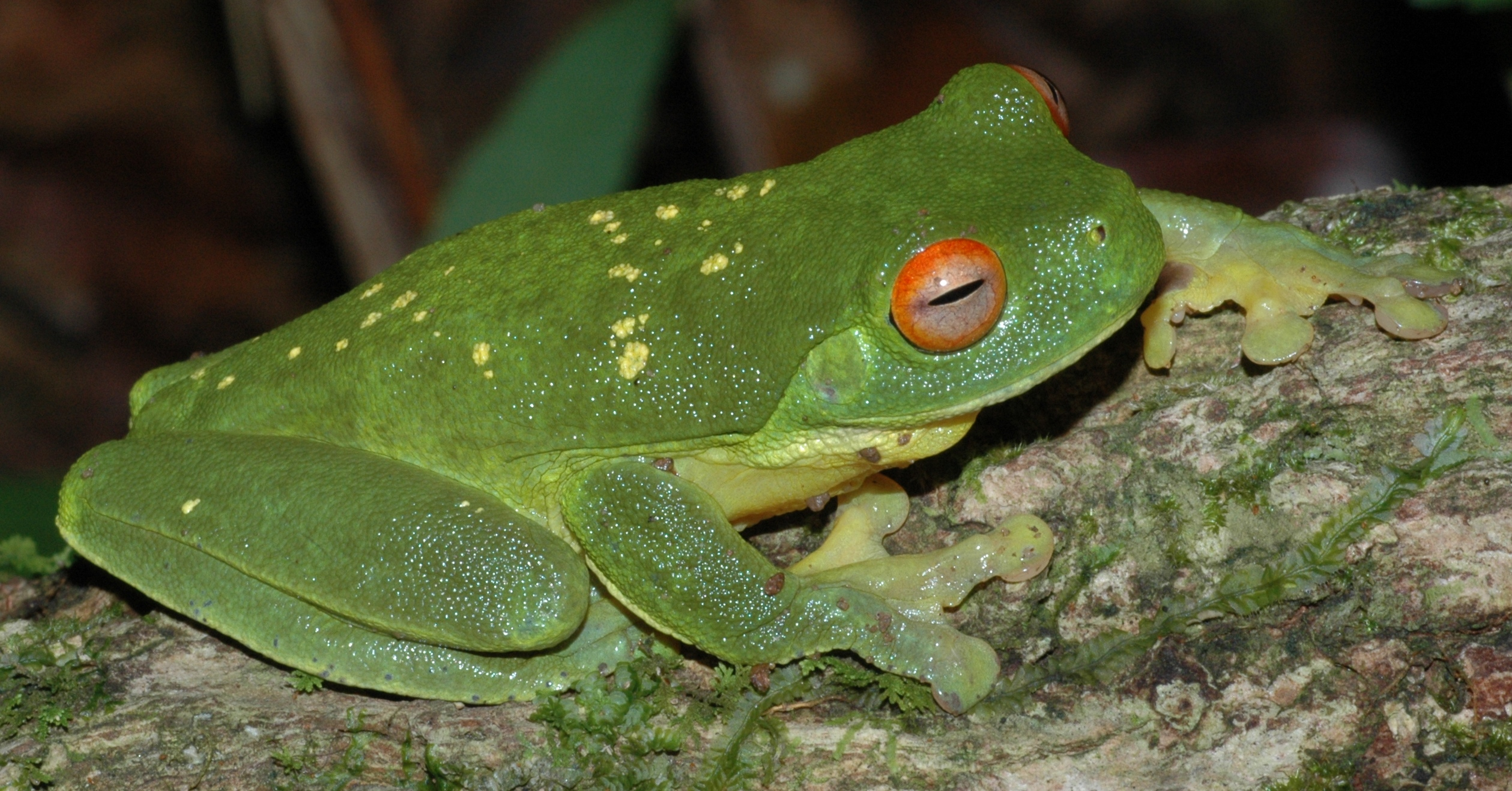 A rare morph of Litoria chloris with yellow dots on its back. Out of my many Litoria chloris that I have seen this is the only one with these dots.